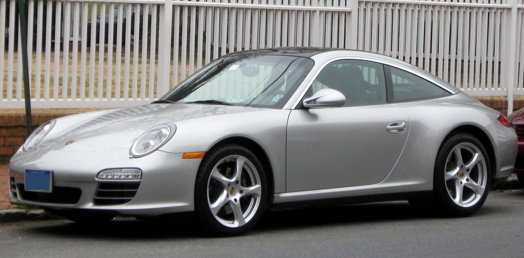 Porsche 911 photographed in Annapolis, Maryland, USA.